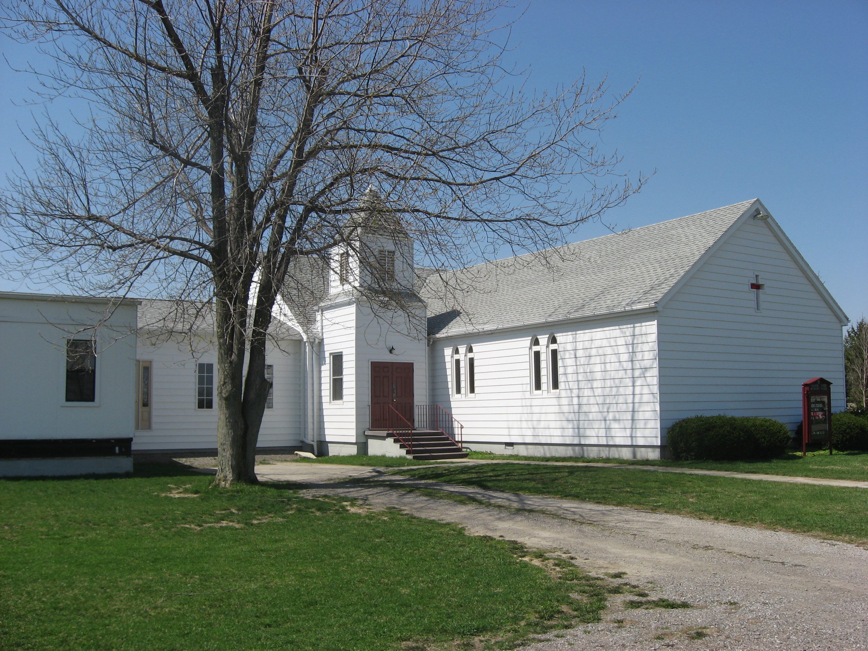 Front of the former Harper United Methodist Church (now an independent congregation), located at 3679 County Road 25 in Harper, Ohio, United States.